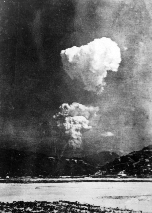 Picture found in Honkawa Elementary School in 2013 of the Hiroshima atom bomb cloud, believed to have been taken about 30 minutes after detonation of about 10km (6 miles) east of the hypocentre.